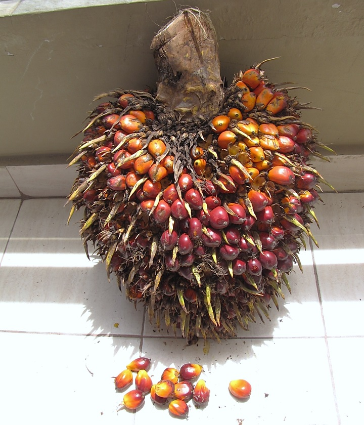 A heavy stem about 10 kg in weight, with many small fruits, showing its somewhat heart-shaped form. When ripe, fruit can be detached and can be eaten fresh or cooked in simple or complex recipes or pressed to extract oil. Individual fruit size 3.5 to 4 cm in length. Maturing red/yellow fruits are protected by stiffened dry protuberances, but when ripe easily detach. Not soft or sweet, fruits can be softened by boiling. Very little pulp over a kernel with a lot of fibers, but with flavor and high calorie oil content. Available and popular across the entire equatorial African region, Southern Senegal to Ghana to Central Africa, DR Congo, to Kenya.